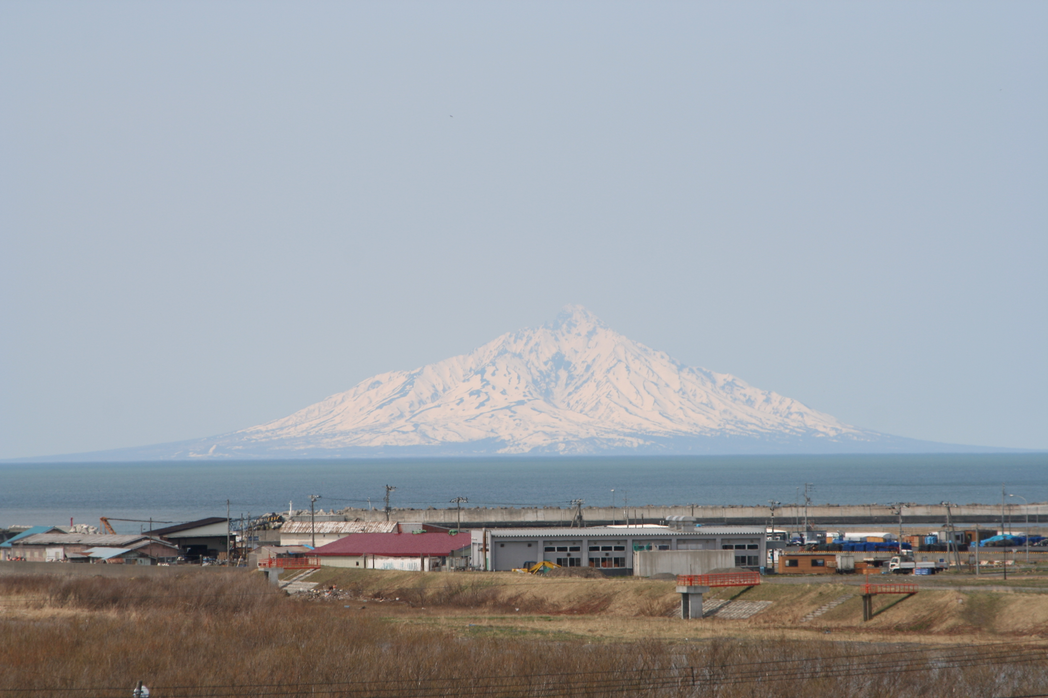 Rishiri Island（利尻島）,北海道遠別町で撮影